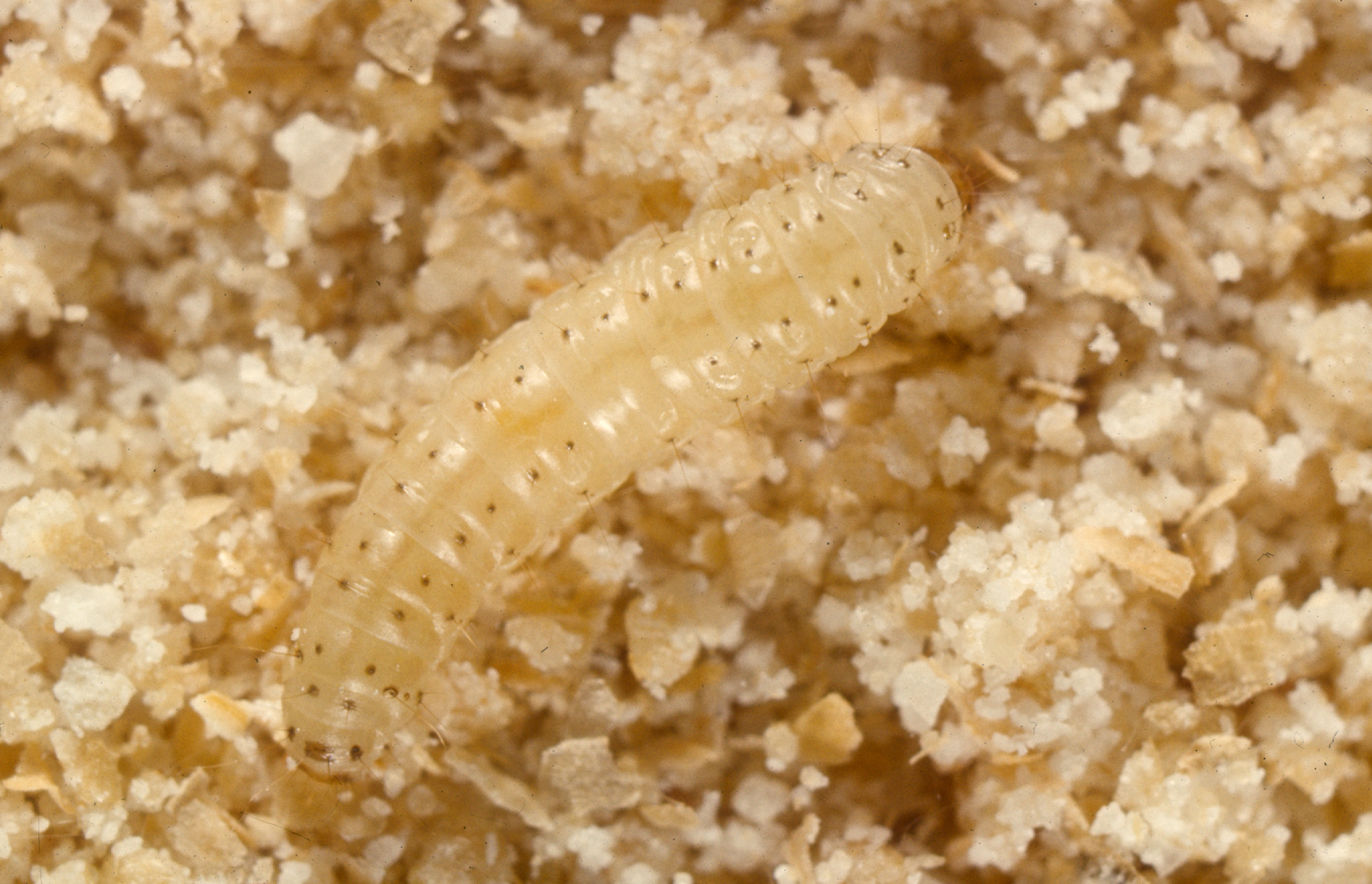 The caterpillar of Cadra cautella has a small black spot at the base of each hair. Warehouse moths are a major pest of flourmills, food processing plants and dried fruits. Silk webbing produced by the caterpillars can block machinery. For an image of the moth see BE1019 .